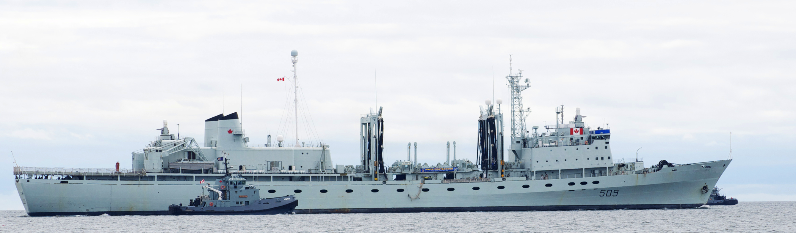 HMCS Protecteur alongside a Glenn-class naval tug.